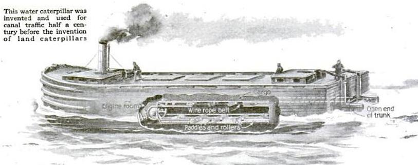 The water caterpillar or track drive propulsion for boats predated the use of land based tracked vehicles by about 50 years.